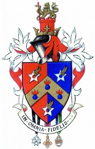 In Omina Fidellis – Faithful in all Things. Granted, Her Majesty’s College of Arms 1993 – Lancaster Herald.